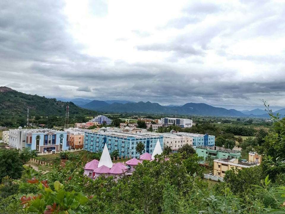 GREEN CAMPUS